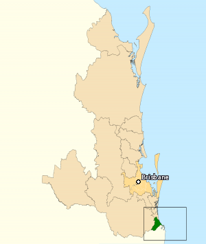 This image incorporates data that is: © Commonwealth of Australia (Australian Electoral Commission) 2009 Division of Mcpherson 2010